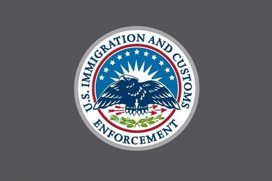 Flag of the United States Immigration and Customs Enforcement